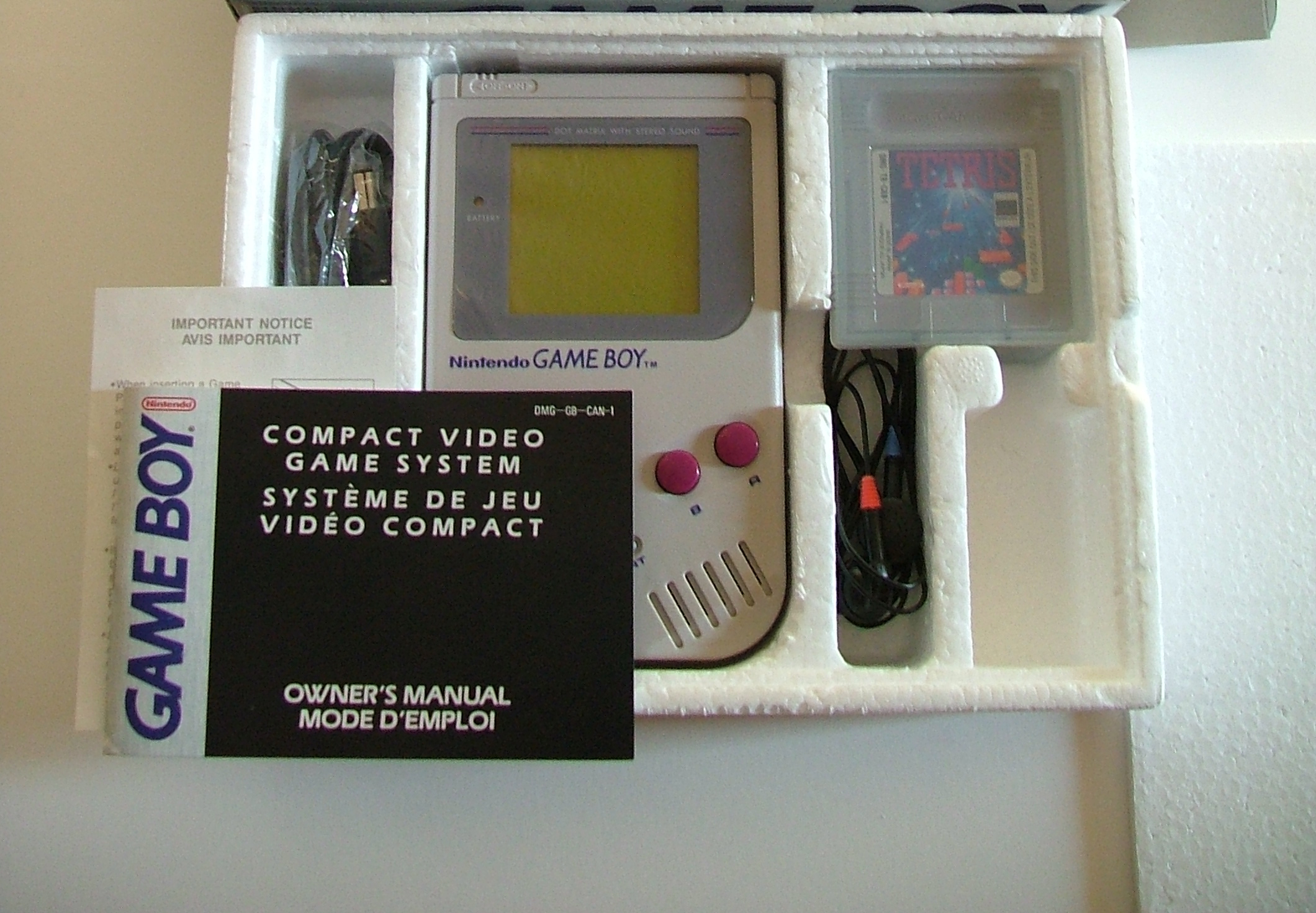 Original Game Boy from Nintendo, released with an edition of the game Tetris